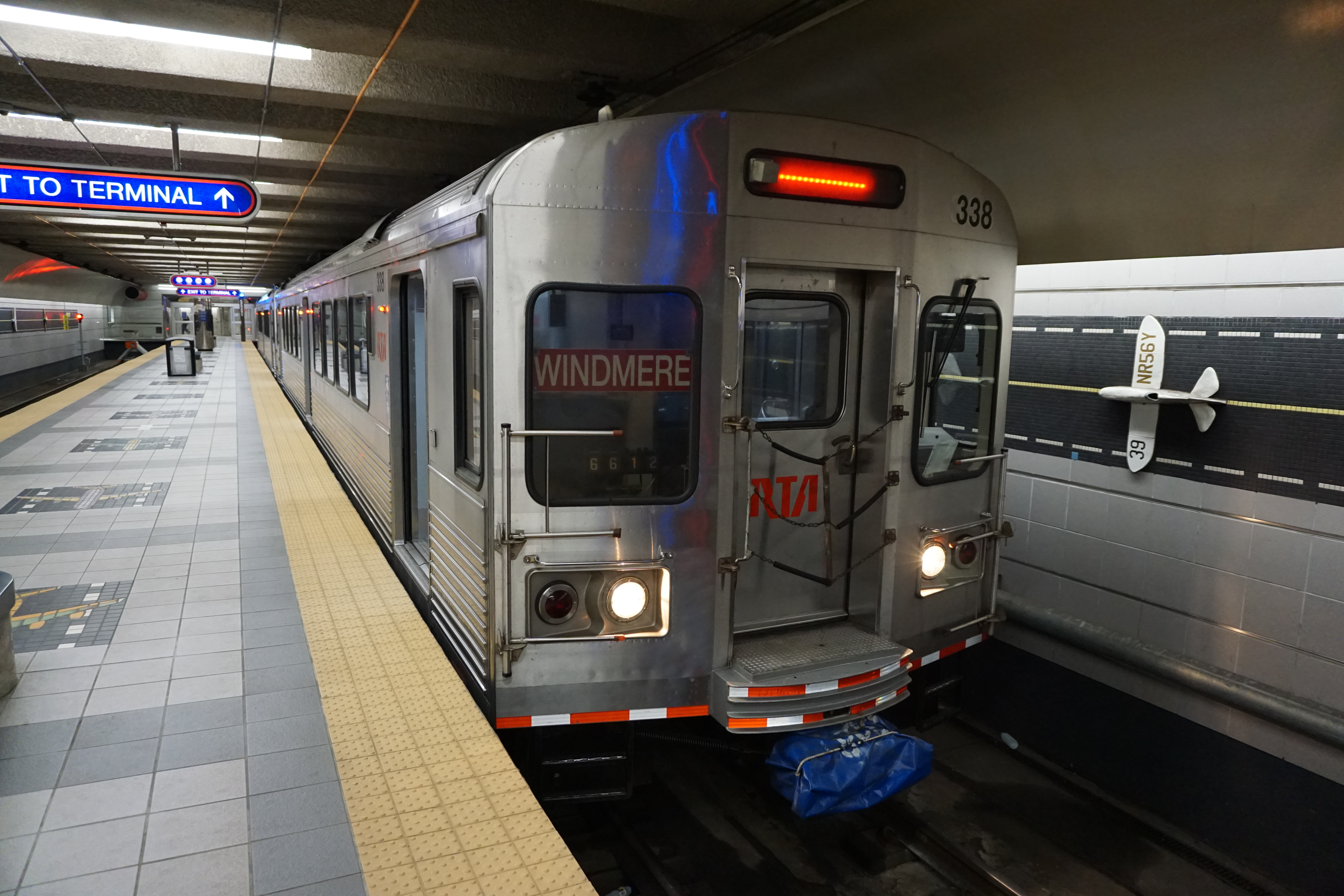 An RTA Red Line train at Cleveland Hopkins International Airport Station in Cleveland, Ohio (United States).